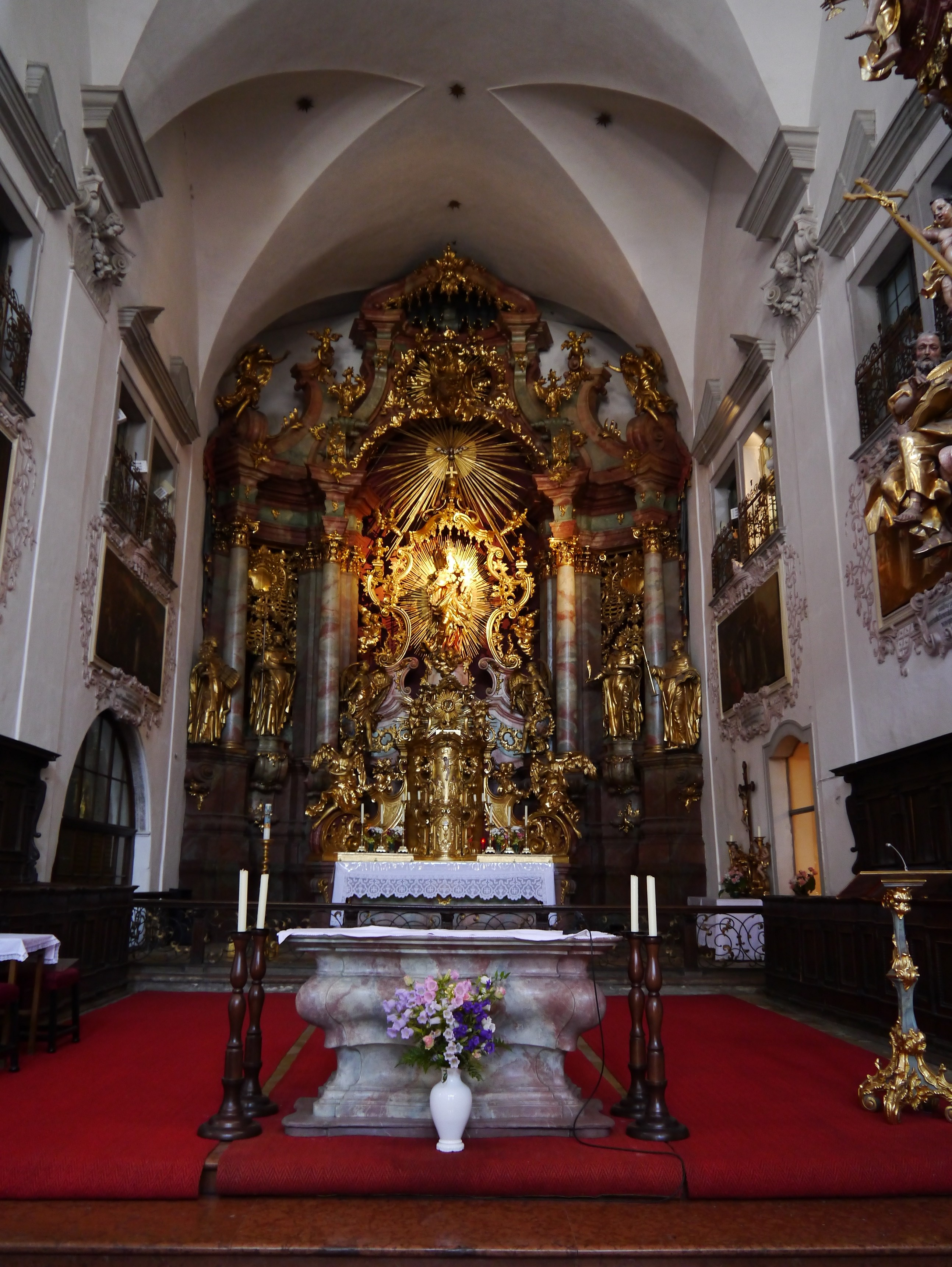 Choir of St. Mary, Upper Austria